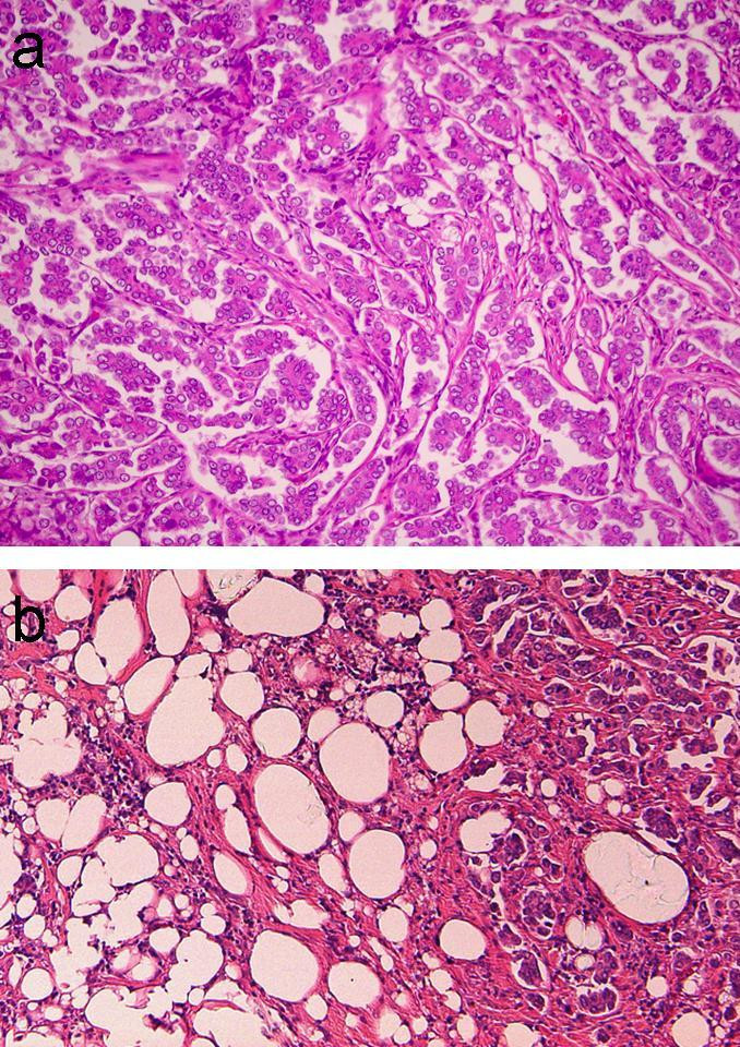 a) Microscopic appearance of the tumor diagnosed as IMPC (hematoxylin-eosin stain, high-power field), showing neoplastic cell clusters floating within clear spaces defined by a network of loose fibrocollagenous stroma. b) Microscopic appearance of the siliconoma on the border of the tumor (hematoxylin-eosin stain, high-power field), showing collections of rounded vacuoles with lipid droplets along with macrophages and foreign-body giant cells.